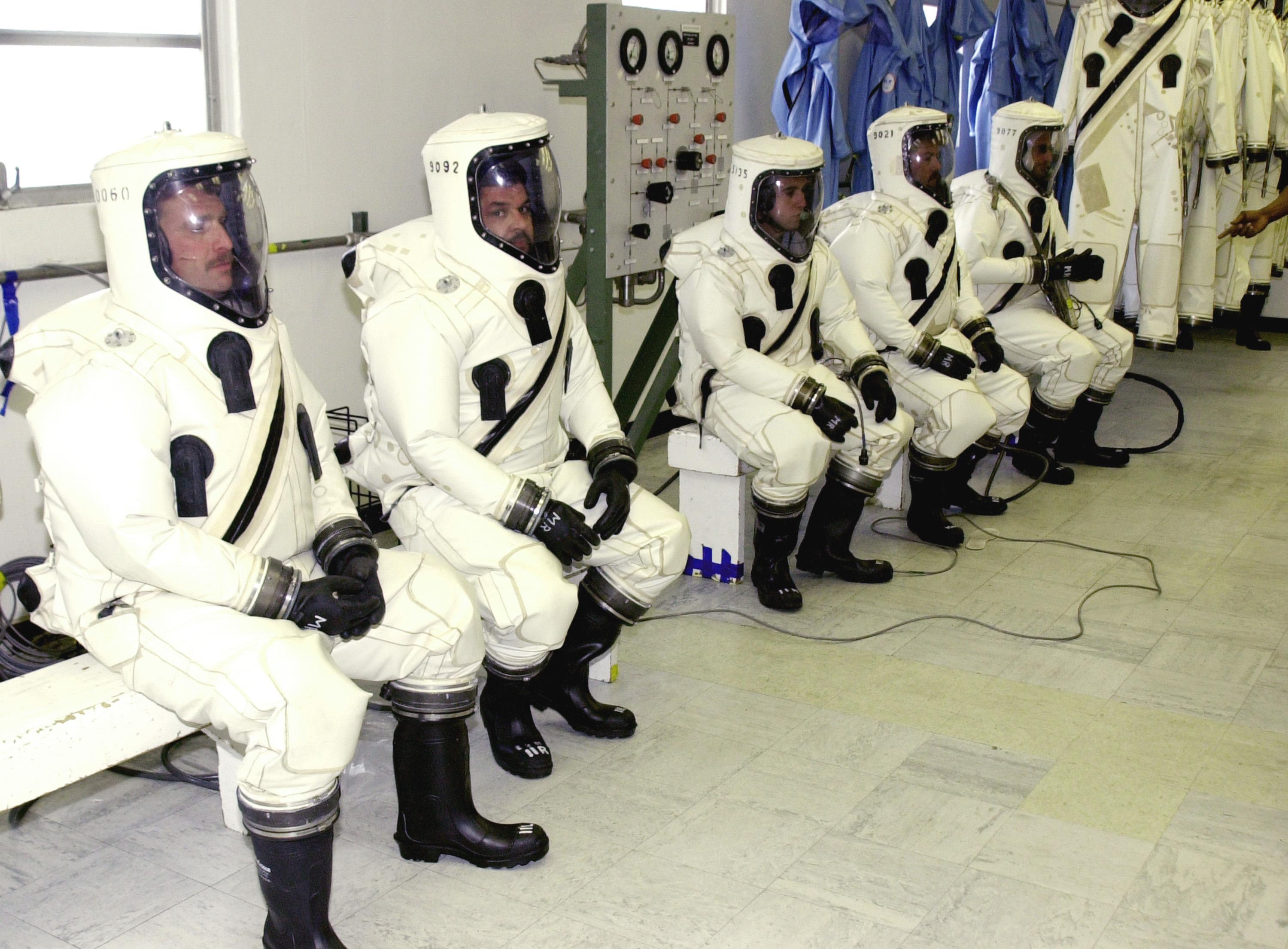 Self-Contained Atmospheric Protection Ensemble suits, used for Space Shuttle rescue operations and any other event which calls for complete atmospheric isolation. Dressed in their SCAPE suits, workers are ready for the fueling of the Comet Nucleus Tour (CONTOUR) spacecraft in the Spacecraft Assembly and Encapsulation Facility 2 (SAEF-2). SCAPE refers to Self-Contained Atmospheric Protective Ensemble. CONTOUR will provide the first detailed look into the heart of a comet -- the nucleus. Flying as close as 60 miles (100 kilometers) to at least two comets, the spacecraft will take the sharpest pictures yet of a nucleus while analyzing the gas and dust that surround them. CONTOUR is scheduled for launch aboard a Boeing Delta II rocket July 1, 2002, from Launch Complex 17-A, Cape Canaveral Air Force Station.